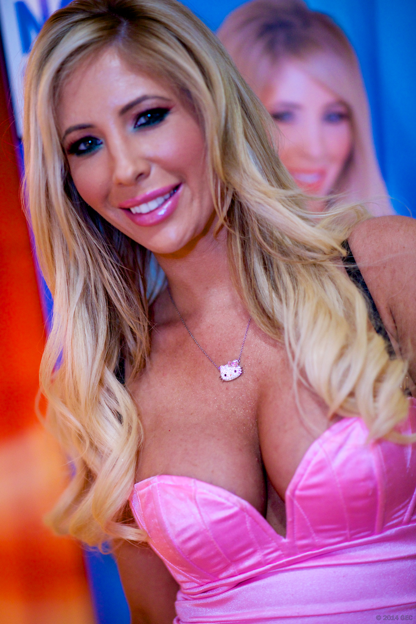 Tasha Reign - 2014 AVN Adult Entertainment Expo AEE at Hard Rock Hotel - Las Vegas